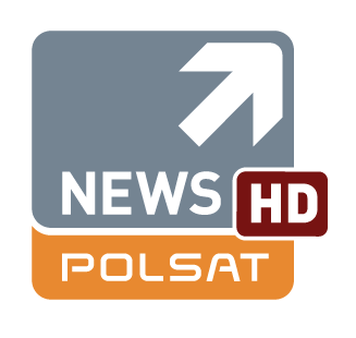 Polsat news HD logo